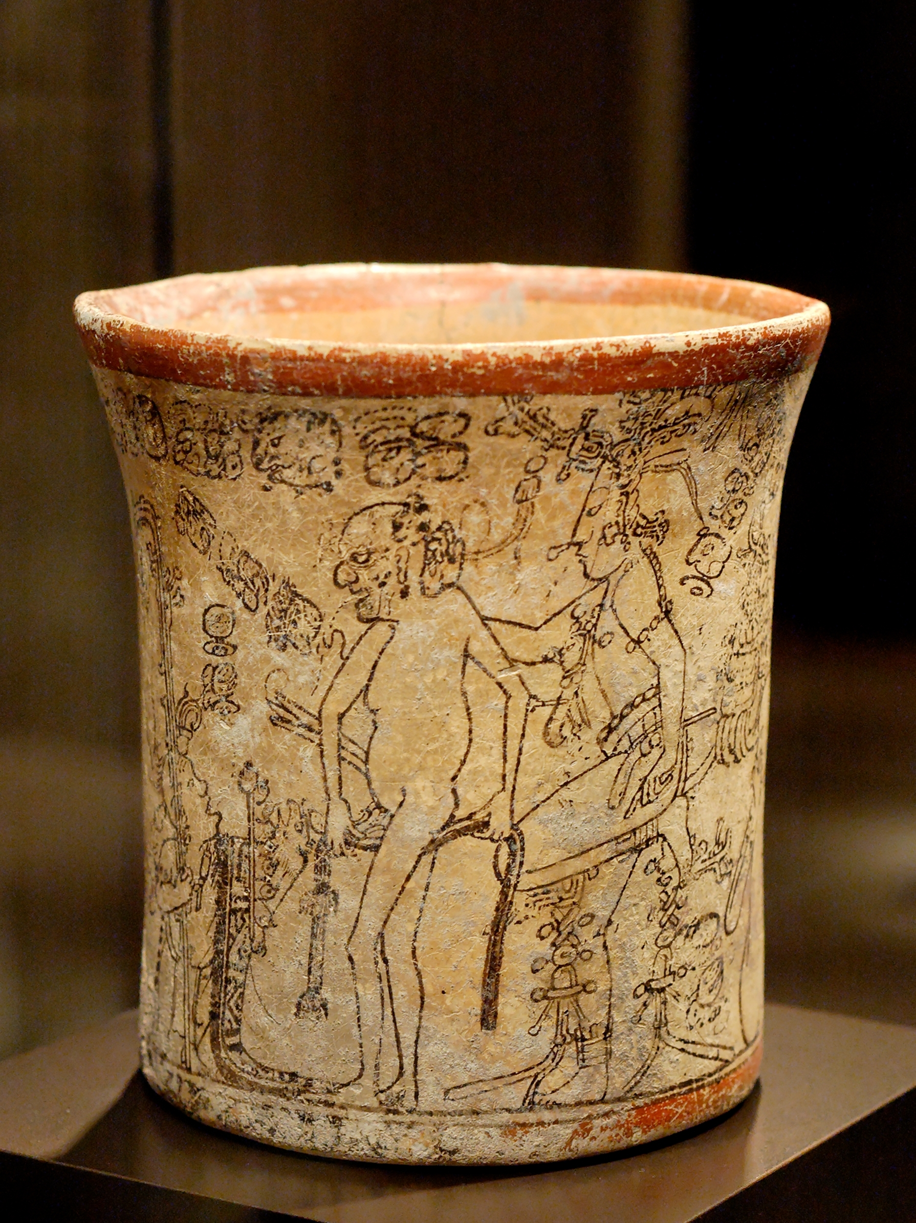 Maya vase of the codex style, representing a lord of the underworld stripped of his clothes and headgear by the young Maize divinity, assisted by a midget and a hunchback. Terracotta, northern Petén (Guatemala), 7th-10th century.